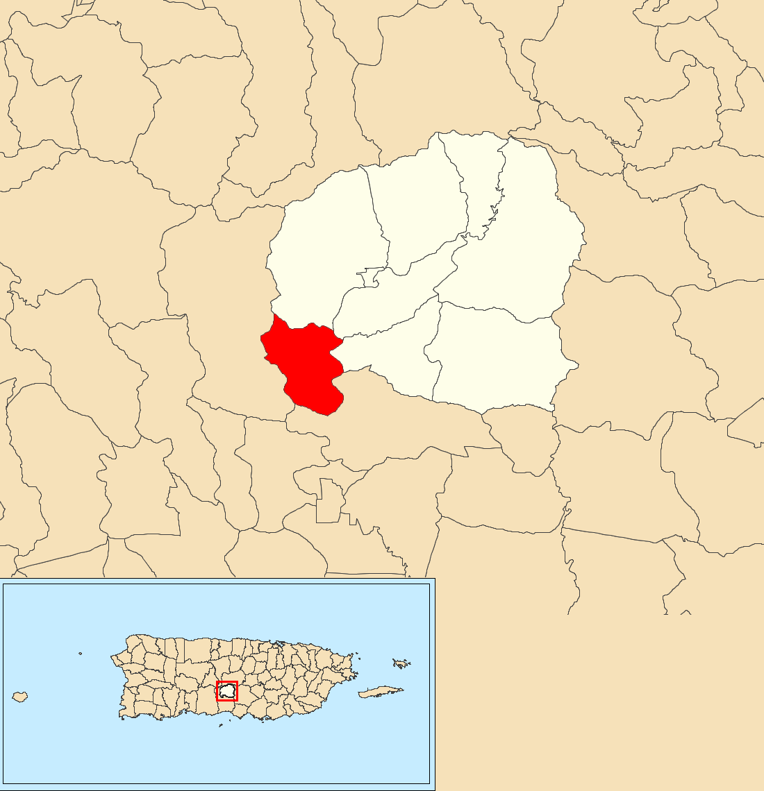 Villalba Abajo, Villalba, Puerto Rico locator map